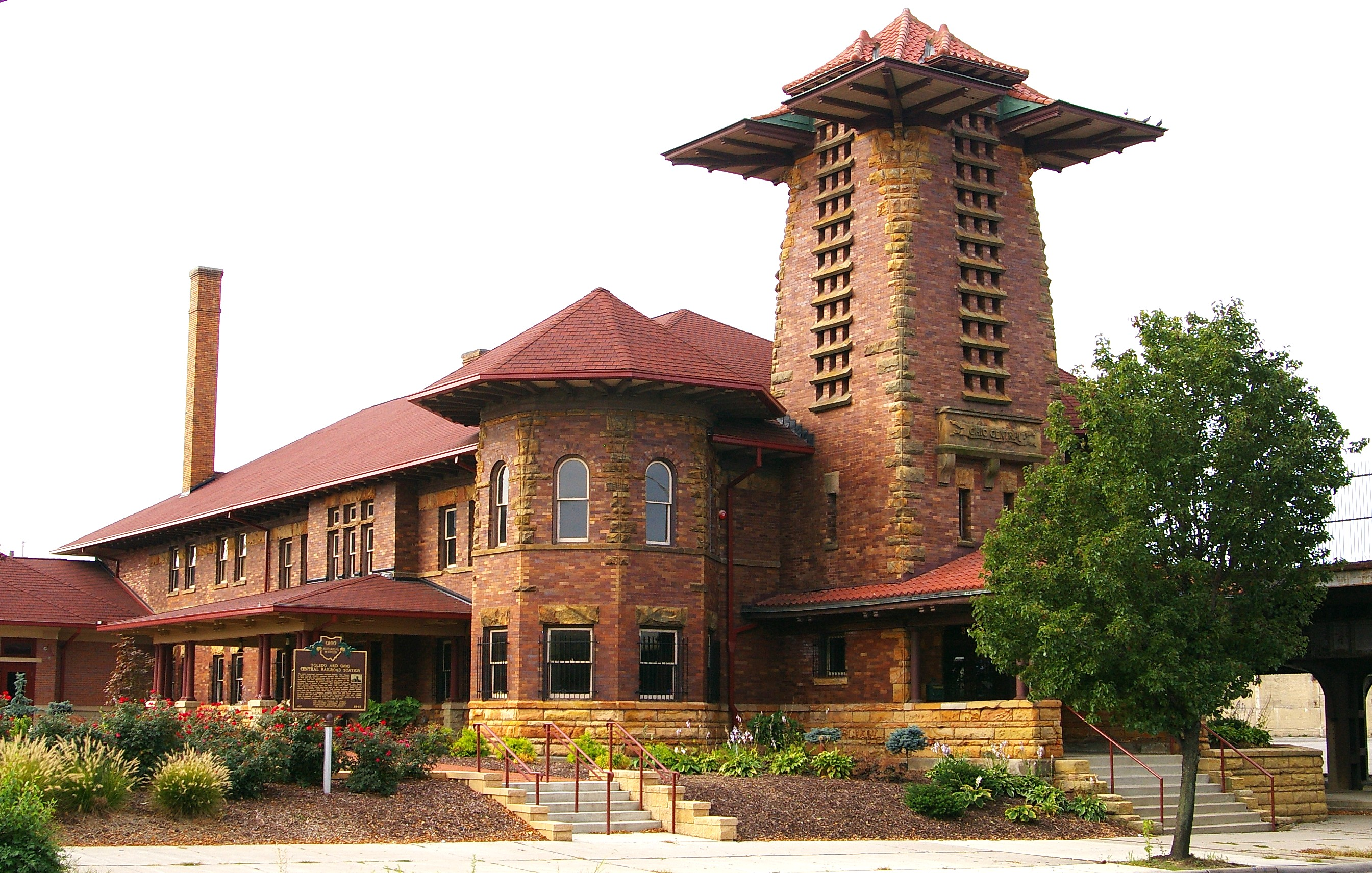 Built in 1895 by Toledo & Ohio Central with one of the strangest station towers I've ever seen. T&OC was taken over by New York Central who closed this station to passengers in 1930 moving all passenger trains to Columbus Union Station. This beautifully restored building is now used by the Columbus, Ohio Firefighters Union.